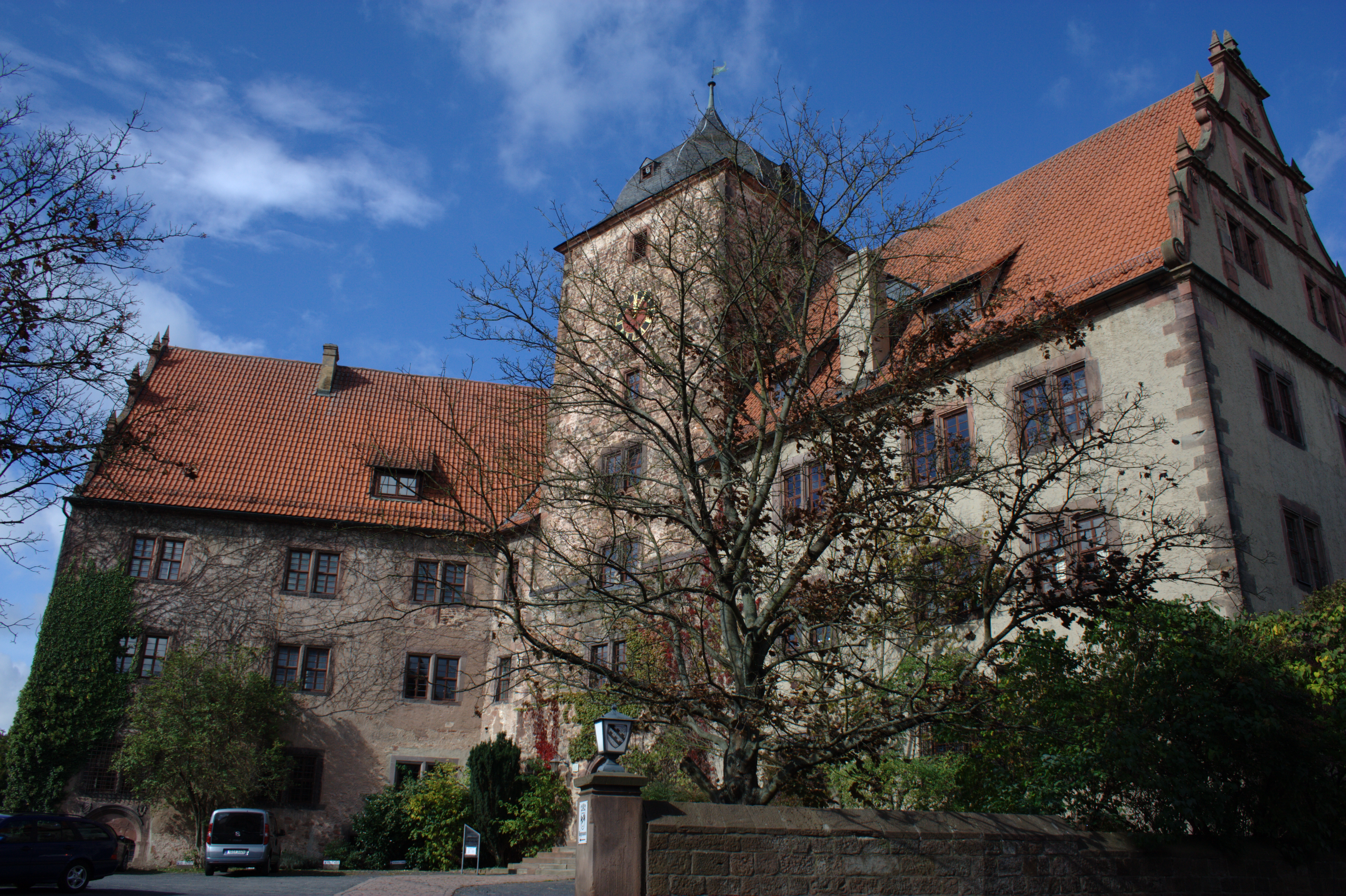 Vorderburg in Schlitz / Hesse / Germany